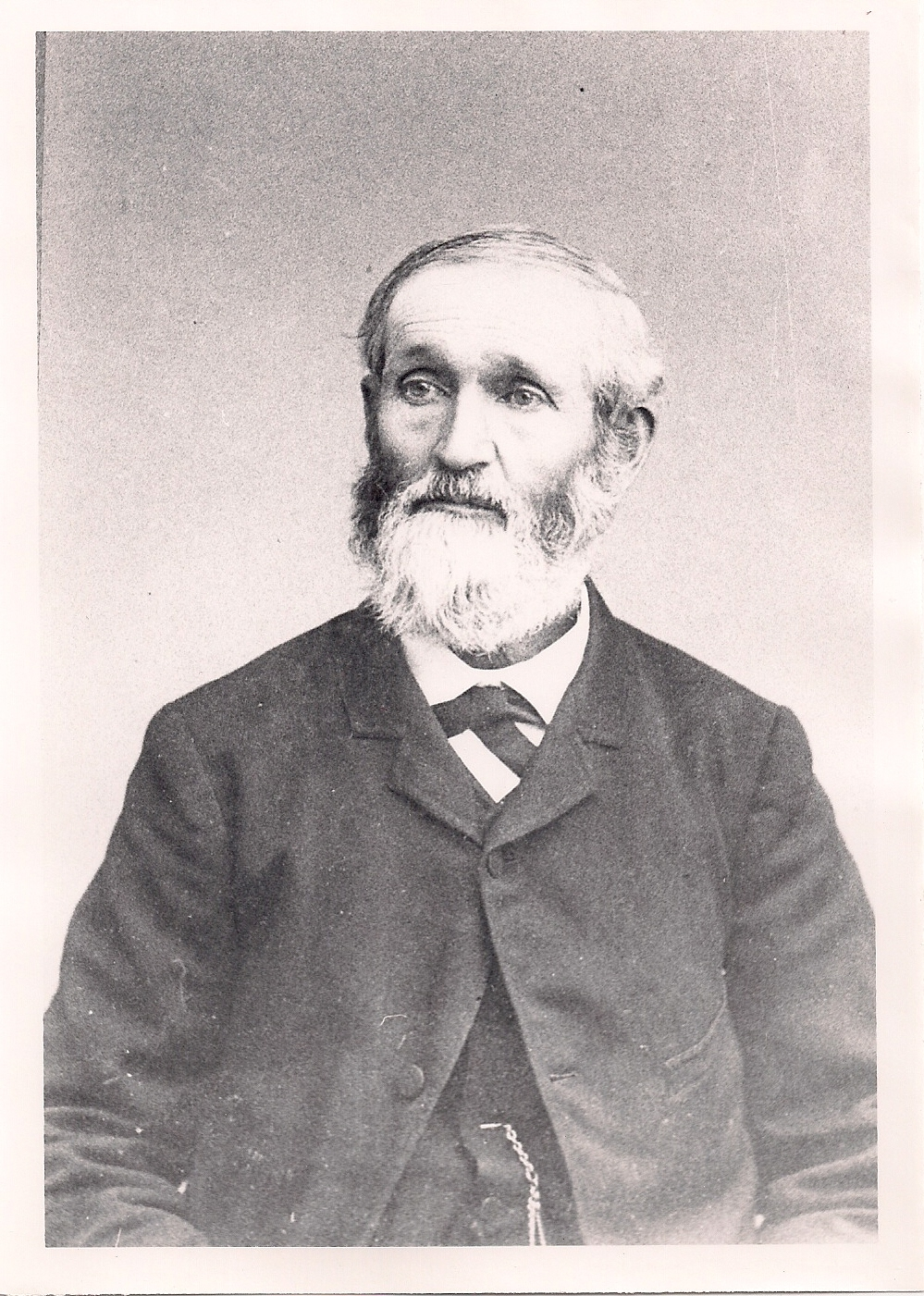 James A Bushnell, business in Junction City Oregon and chair of board of trustees Eugene Divinity School